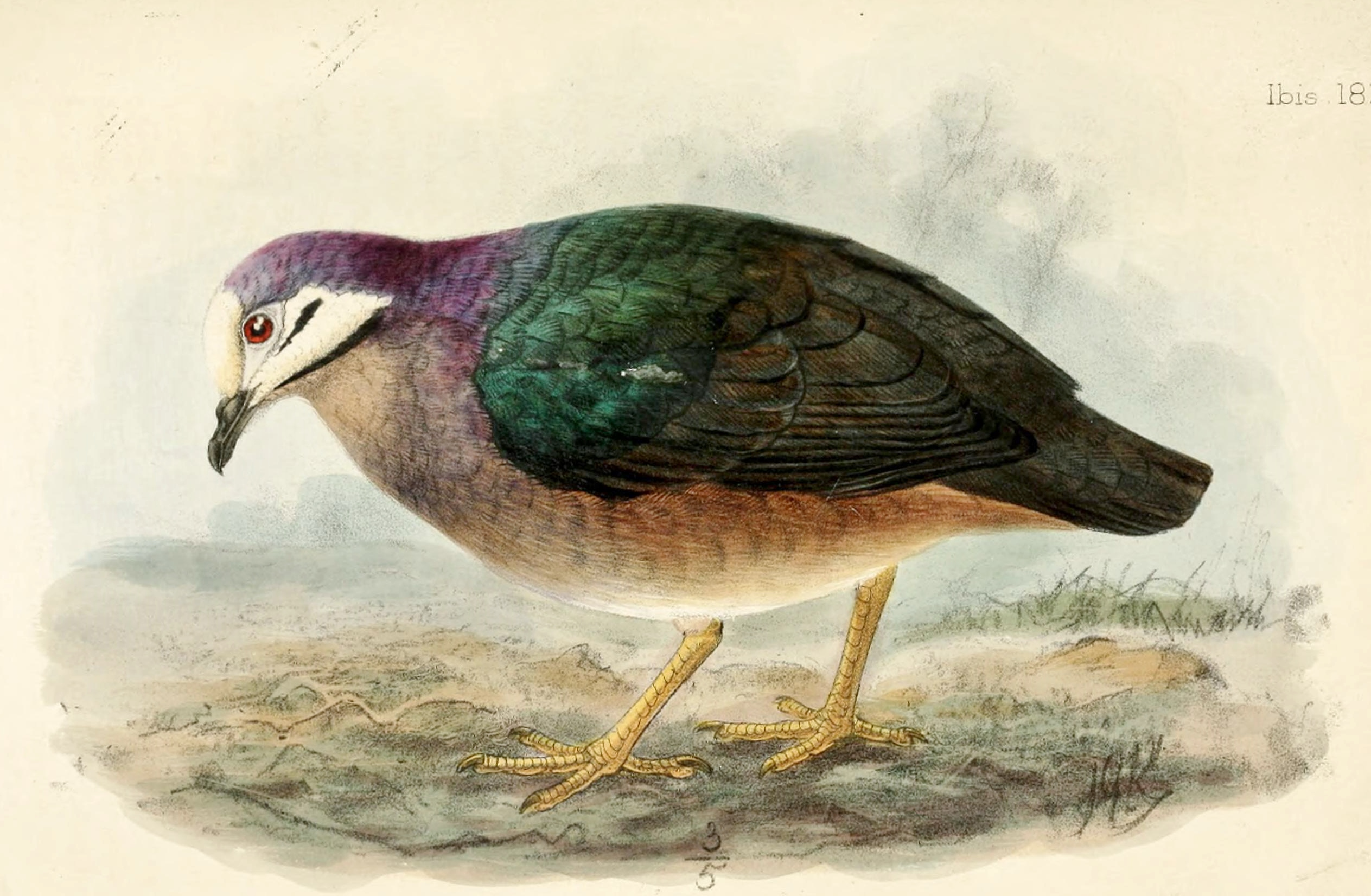 « Geotrygon veraguensis » = Geotrygon veraguensis (Olive-backed Quail-Dove)